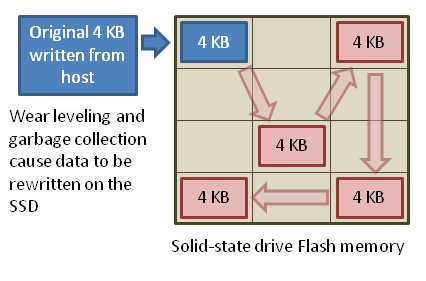 I, § Music Sorter § (talk) 10:48 pm, Yesterday (UTC−7), created and uploaded this drawing into Wikipedia under the Creative Commons Attribution-ShareAlike 3.0 License. This drawing is an illustration of Write Amplification found on an SSD that uses Flash Memory. The data originally written from the host is moved (erased and rewritten) to other locations on the SSD due to wear leveling and garbage collection. This causes additional writes (write amplification) to occur on the SSD.